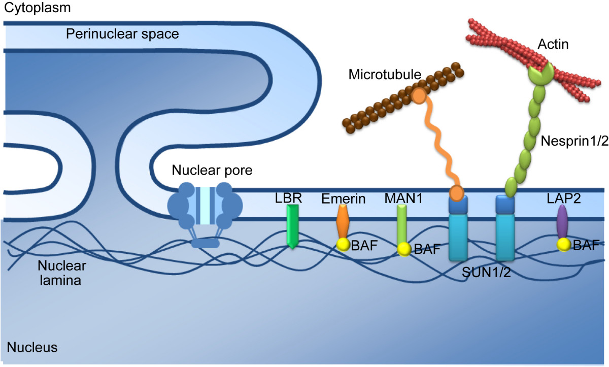 The three-layers of NE proteins. The nuclear pore complex (NPC) transverses the inner and outer nuclear membranes. INM proteins, including SUN1, LAP2, Emerin, MAN1 and LBR, are mostly associated with the nuclear lamina. Emerin, LAP2 and MAN1 harbor a LEM domain which interacts with BAF (barrier-to-autointegration factor), a chromatin-binding protein. The nuclear lamina forms a meshwork underlying the inner nuclear membrane. Chi et al. Journal of Biomedical Science 2009 16:96